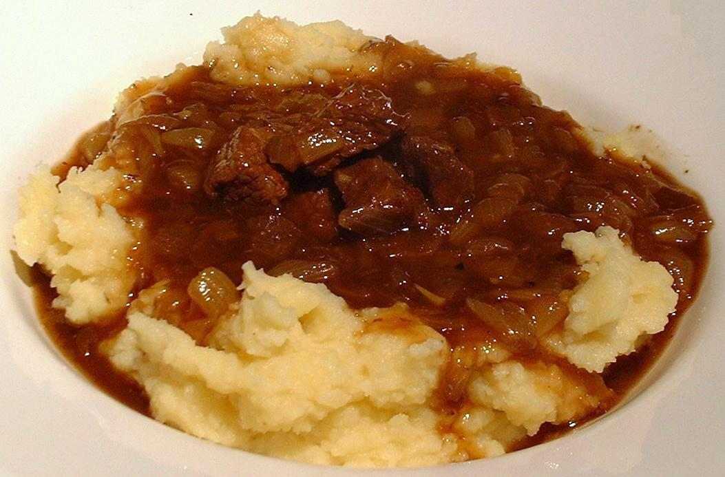 Hachee (Dutch stew and unions) with mashed potatoes